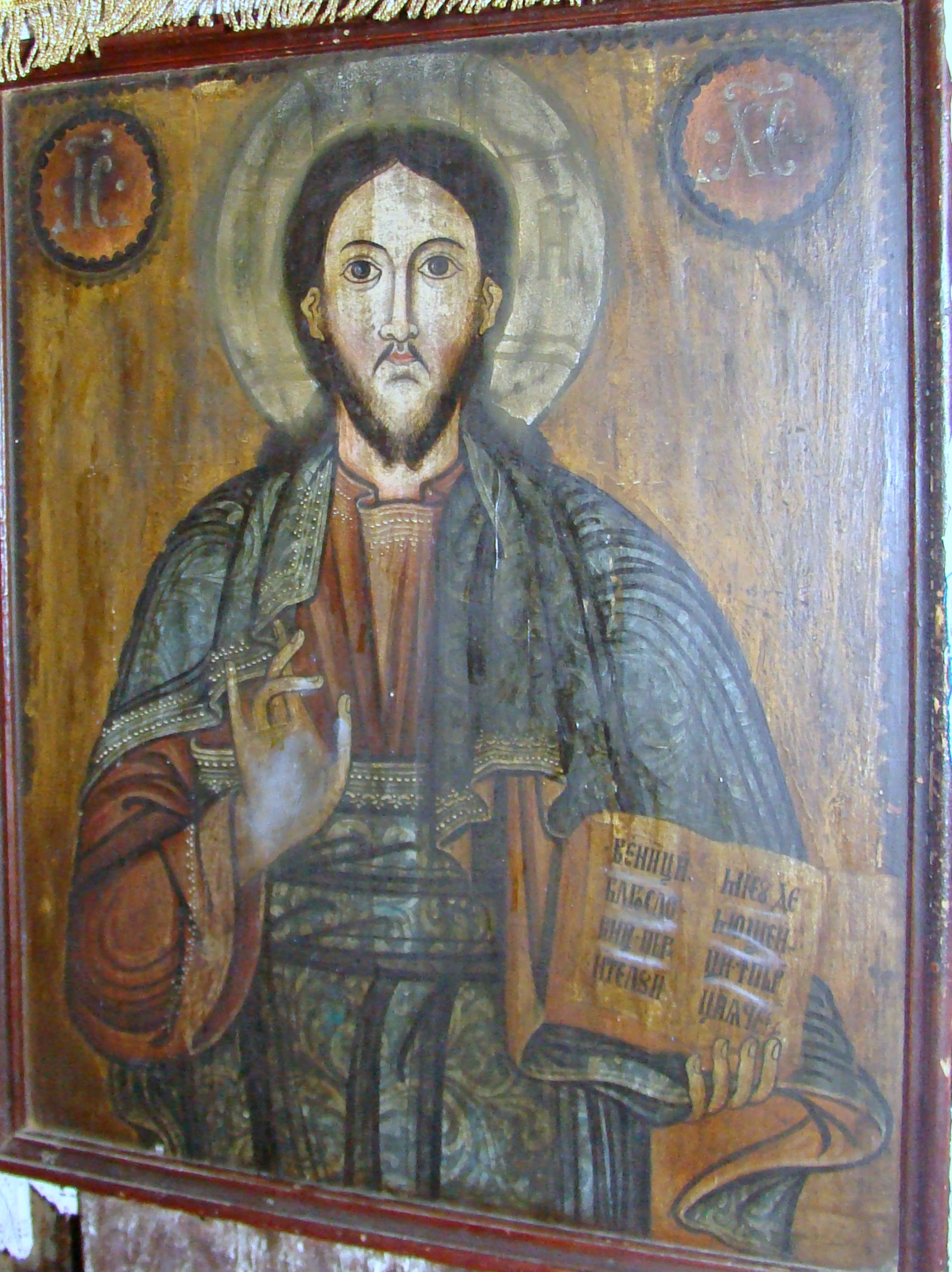 The wooden church in Sic, Cluj county, Romania (Icon of our Lord Jesus Christ)